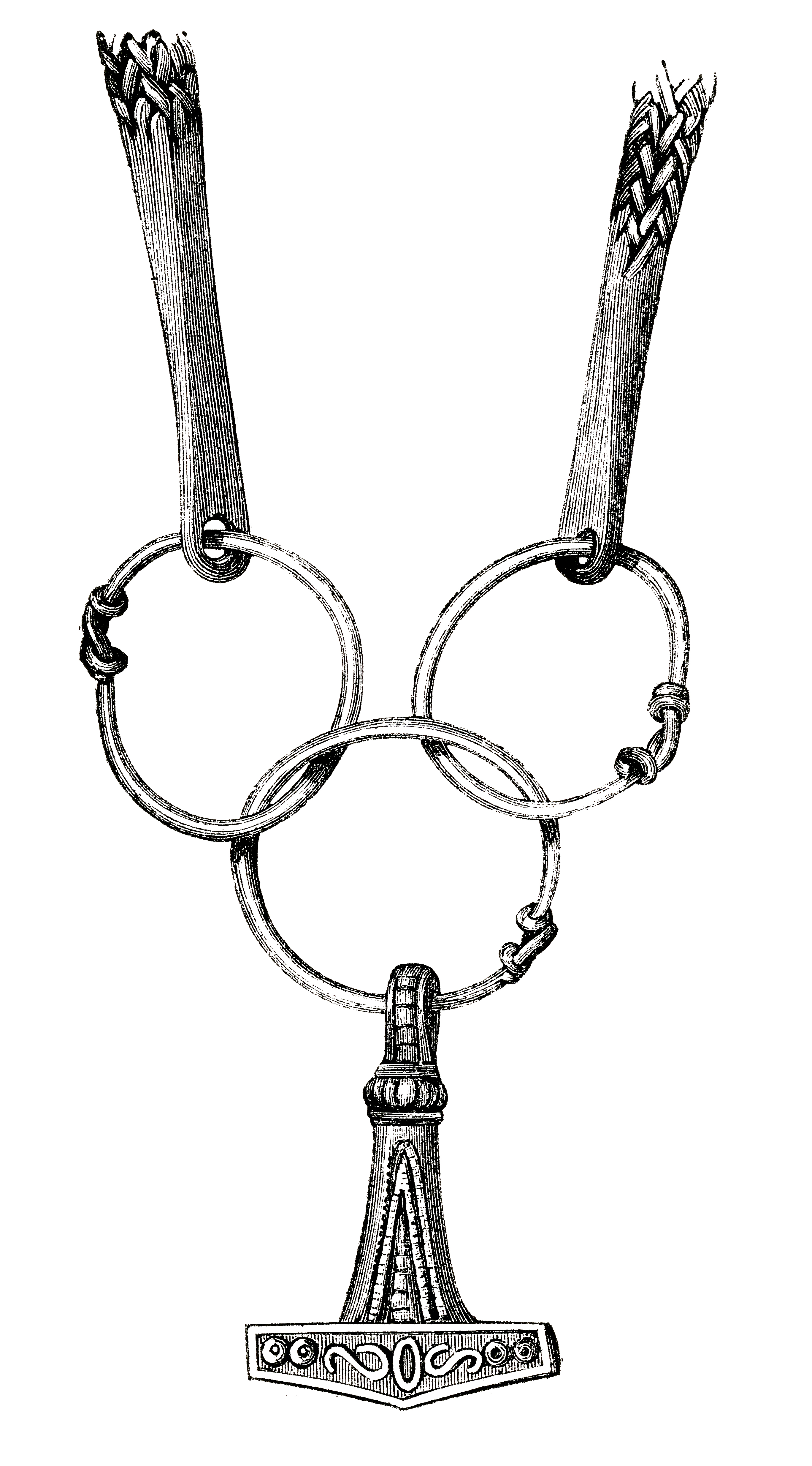 Thor's hammer of silver from Pålstorp, Raus parish, Luggude hundred, Helsingborg municipality, Skåne, Sweden. Woodcut from an article about Thor's hammer in Kongl. Vitterhets Historie och Antiqvitets Akademiens Månadsblad (1872).